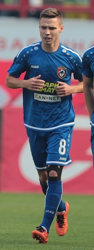 Anton Kilin with FC Tambov in a game against FC Lokomotiv Moscow.